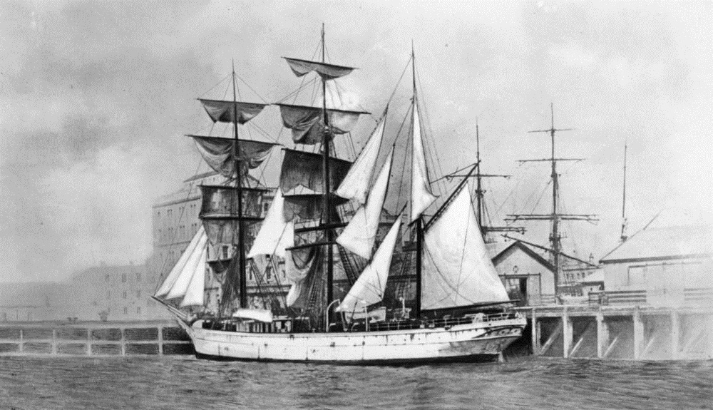 Iron barque Clan Macleod, which was later named the James Craig.